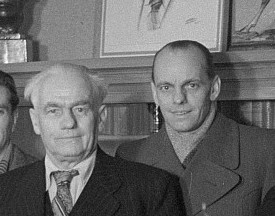 Arthur Pieck looking over his father's shoulder at the latter's seventieth birthday which took place in 1946